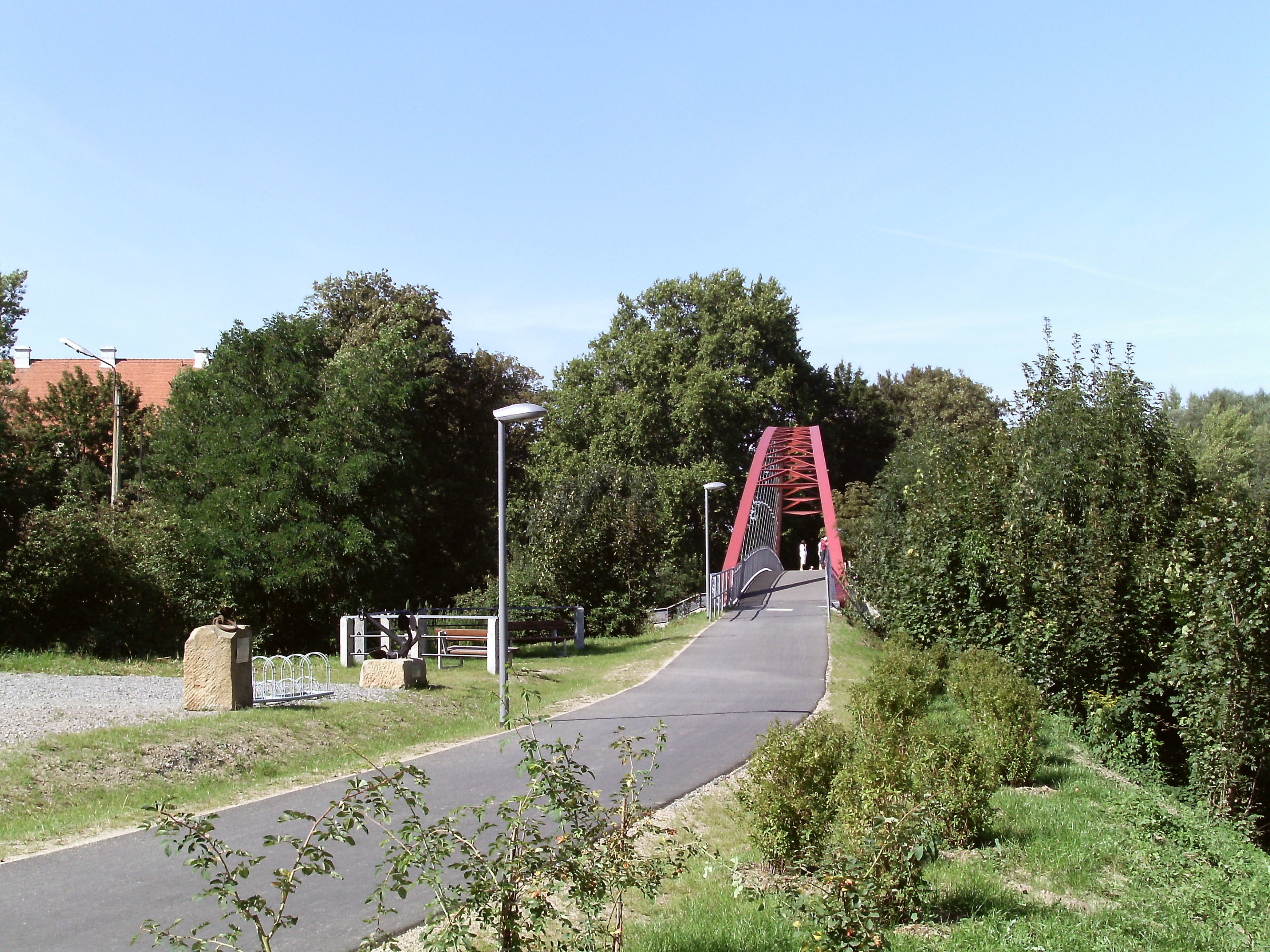 New Gröba Castle Bridge in Riesa, rebuilt in 2011 after the destruction in 1945.